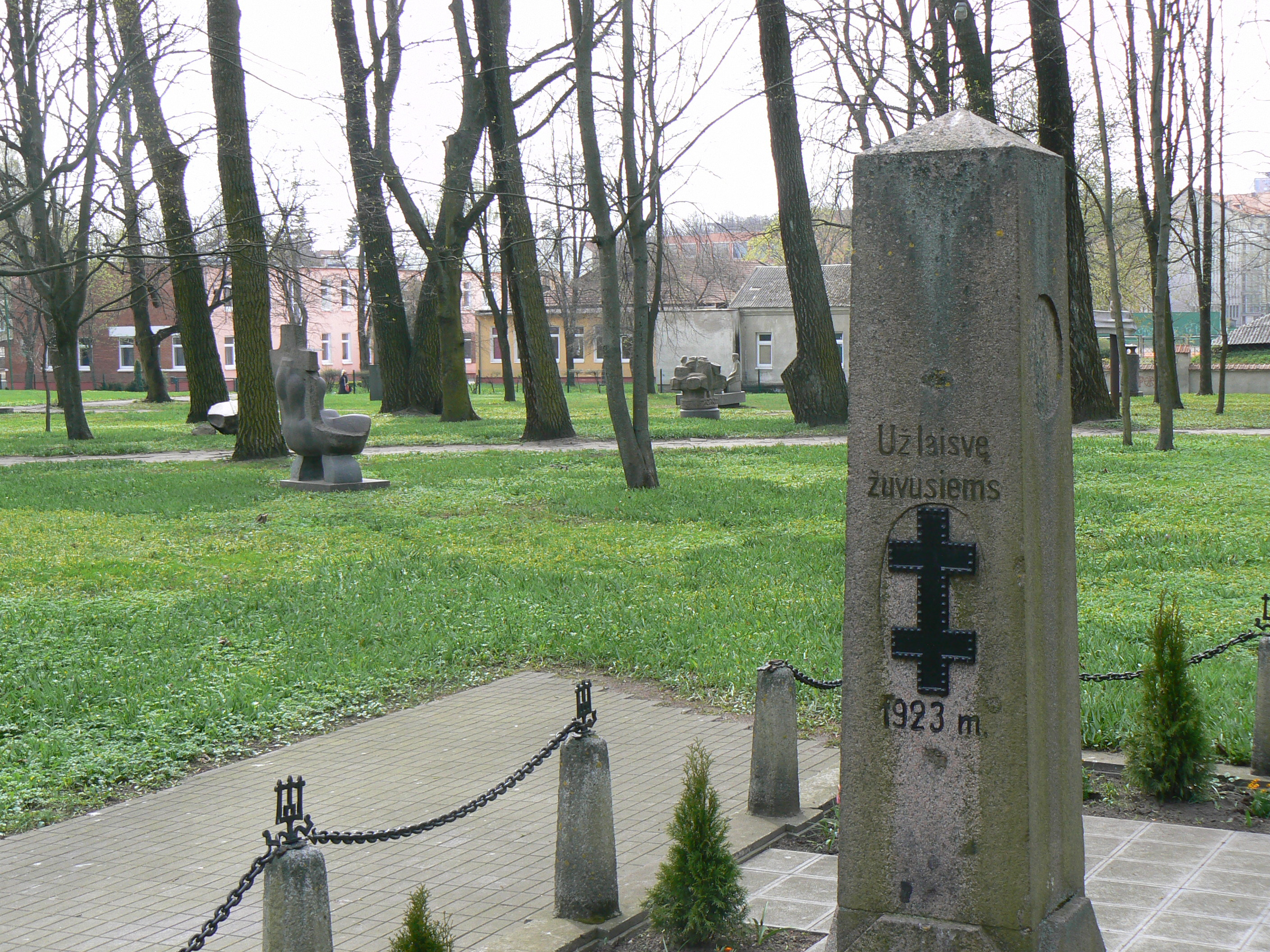 Klaipėda 1923 memorial in Park of sculptures Česky: Památník Klaipedského povstání 15.1. cs:1923 v Parku soch.